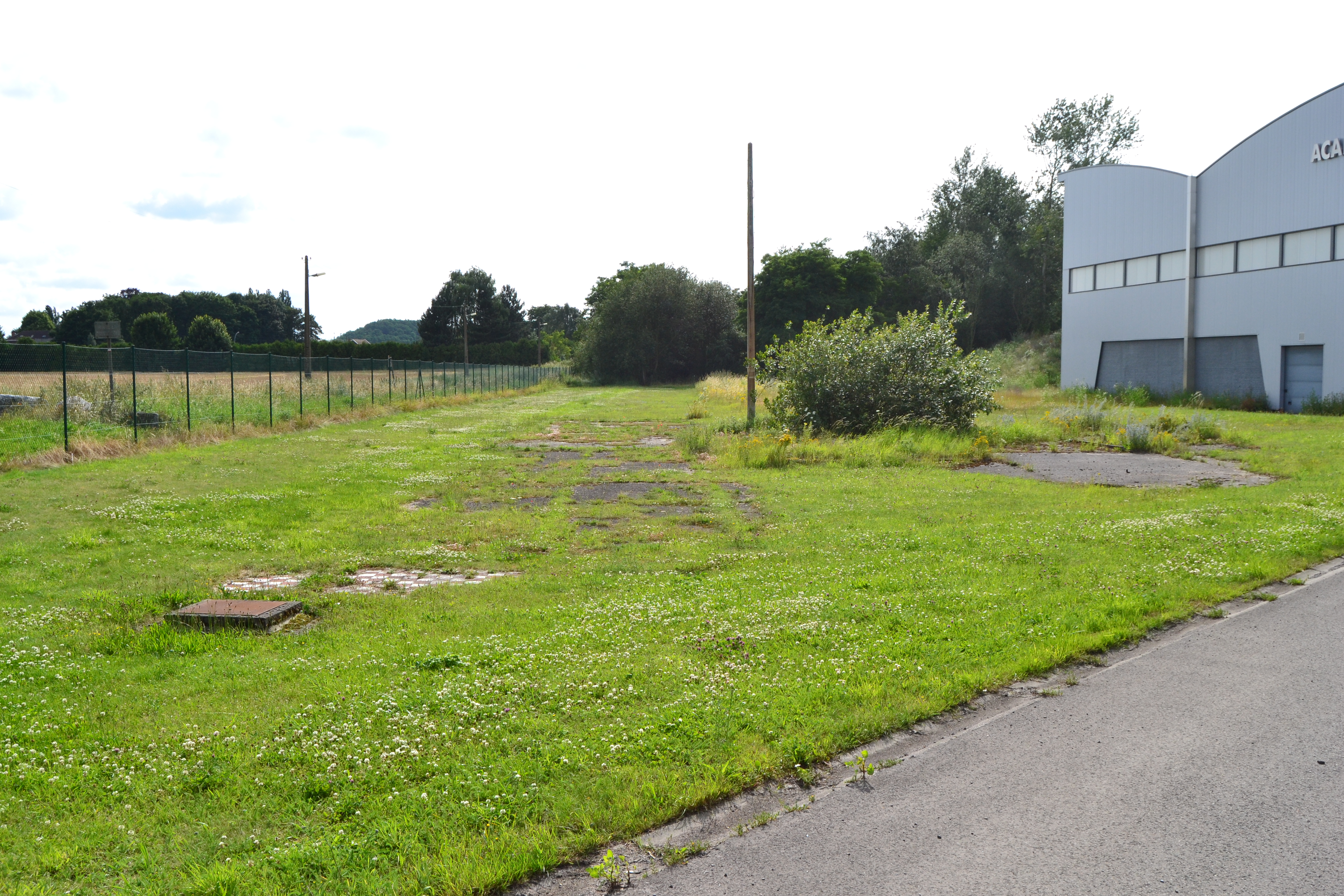 Ancient pit of the Bonne Fortune coal mine in Ans, Liège, Belgium